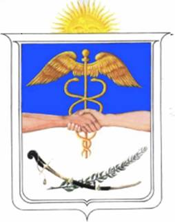 Municipal Seal of Gral. San Martín (Mendoza)